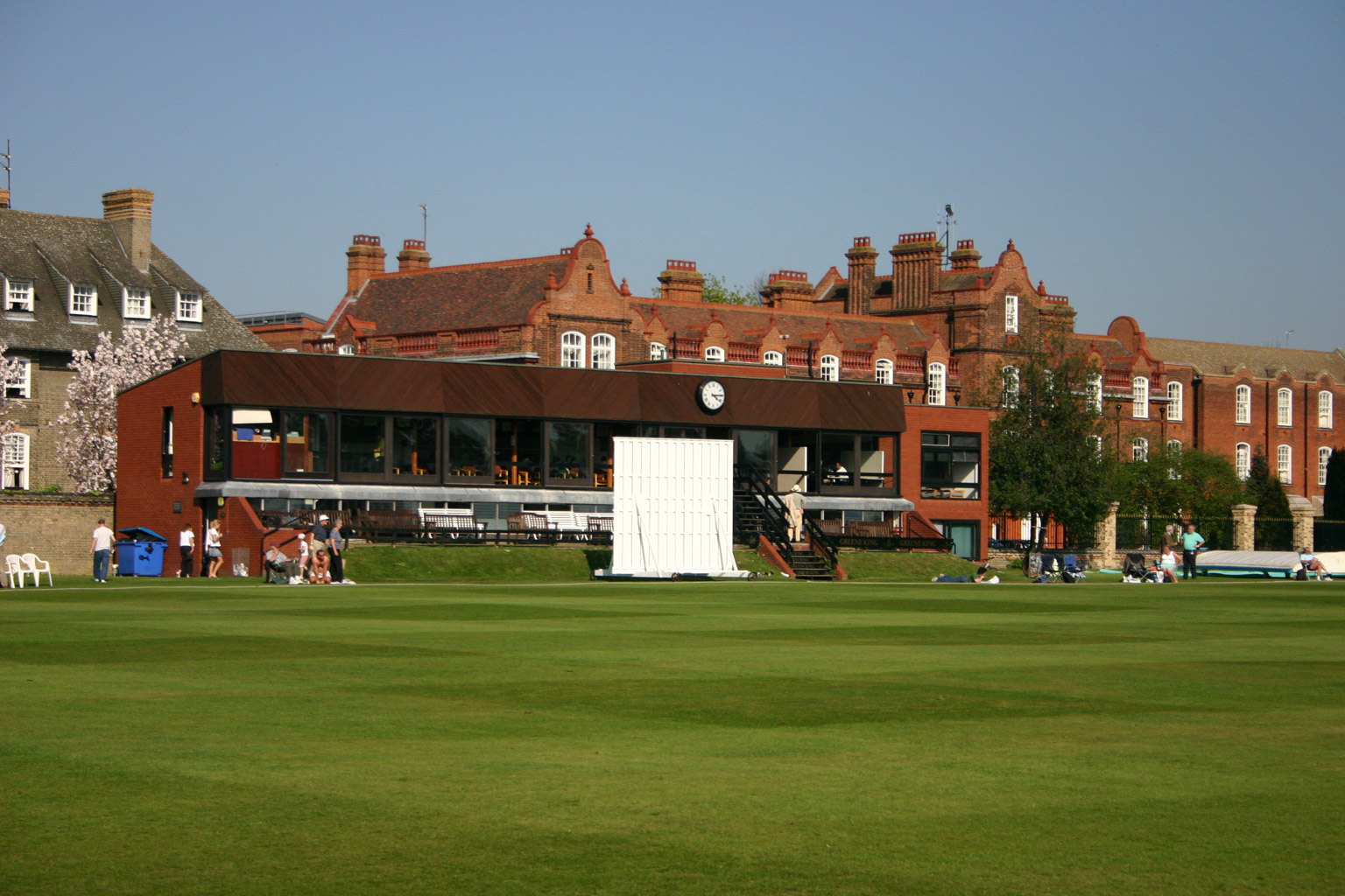 The pavilion at Fenner's cricket ground, Cambridge. Taken by myself, Stephen Turner on en:15 April en:2007.